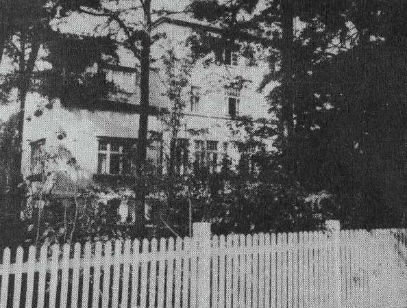 A photo of the mansion of the Skoropadskiy family in Wannsee, Germany